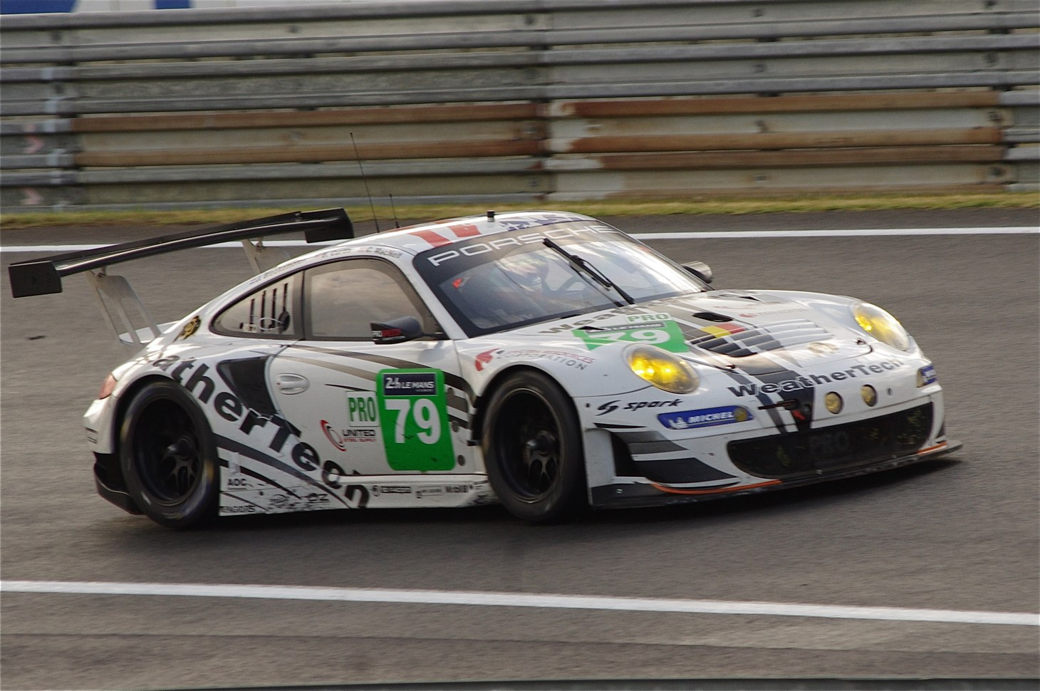 2014 24 Hours of Le Mans Prospeed Competition's Porsche 997 GT3 RSR n°79 Driven by Jeroen Bleekemolen and Cooper MacNeil